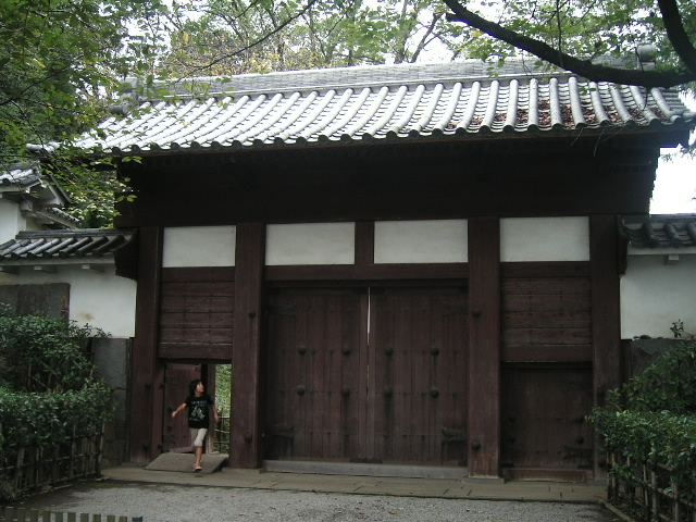 Dobashi-mon gate of Tatebayashi castle